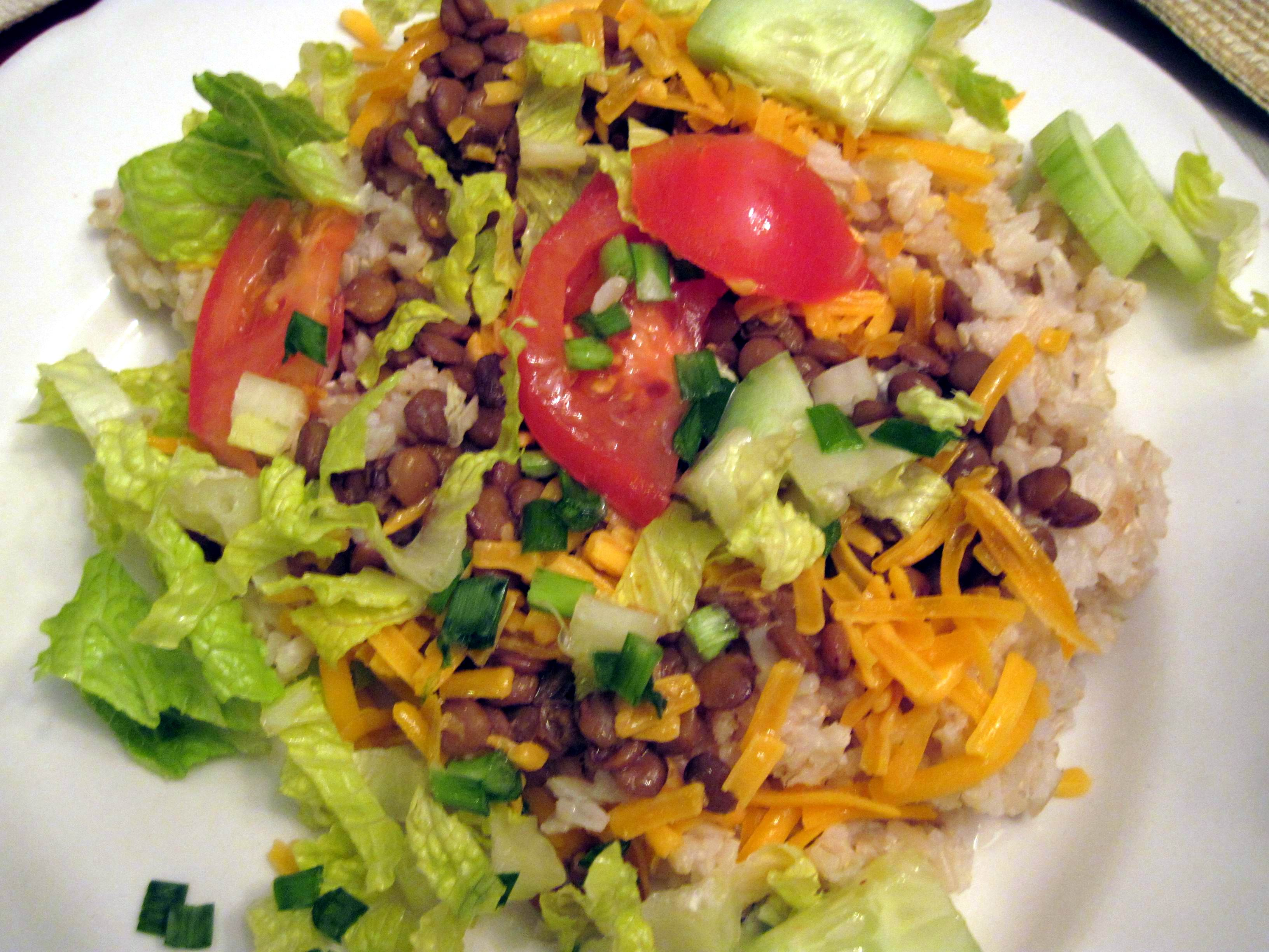 (See my previous Flickr picture) (without the browned onions) Rice goes on the plate, then lentils, then cheese, then veggies, then lemon sauce over all. The lemon sauce is an unusual step, but it really is what makes this dish good.